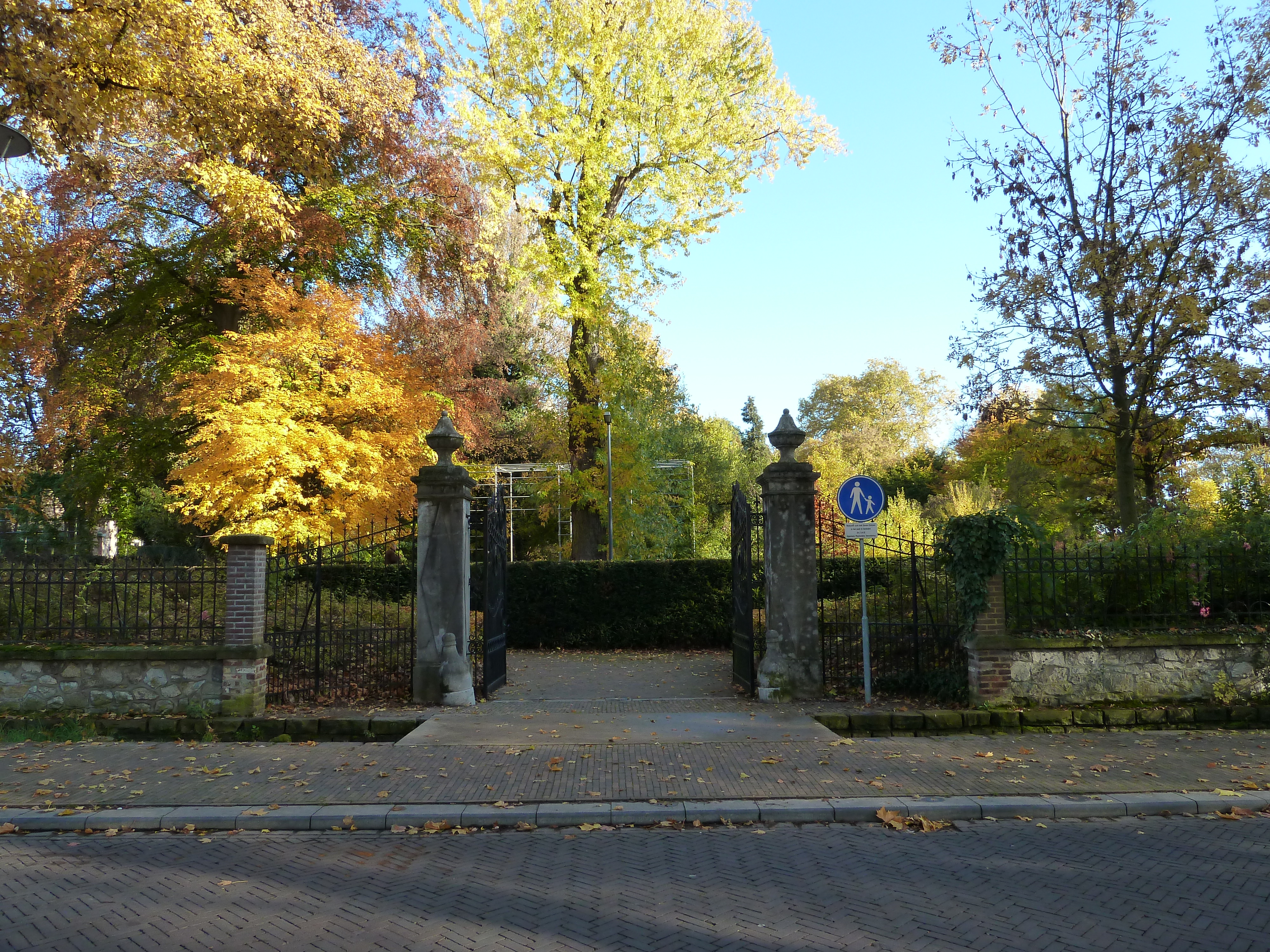 Park, Meerssen, Limburg, the Netherlands